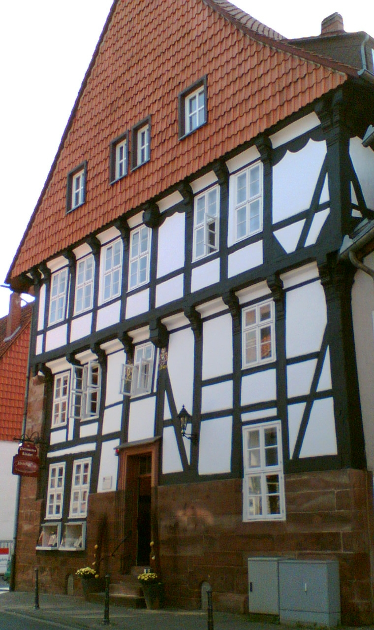 former poor clares building in Einbeck, Germany